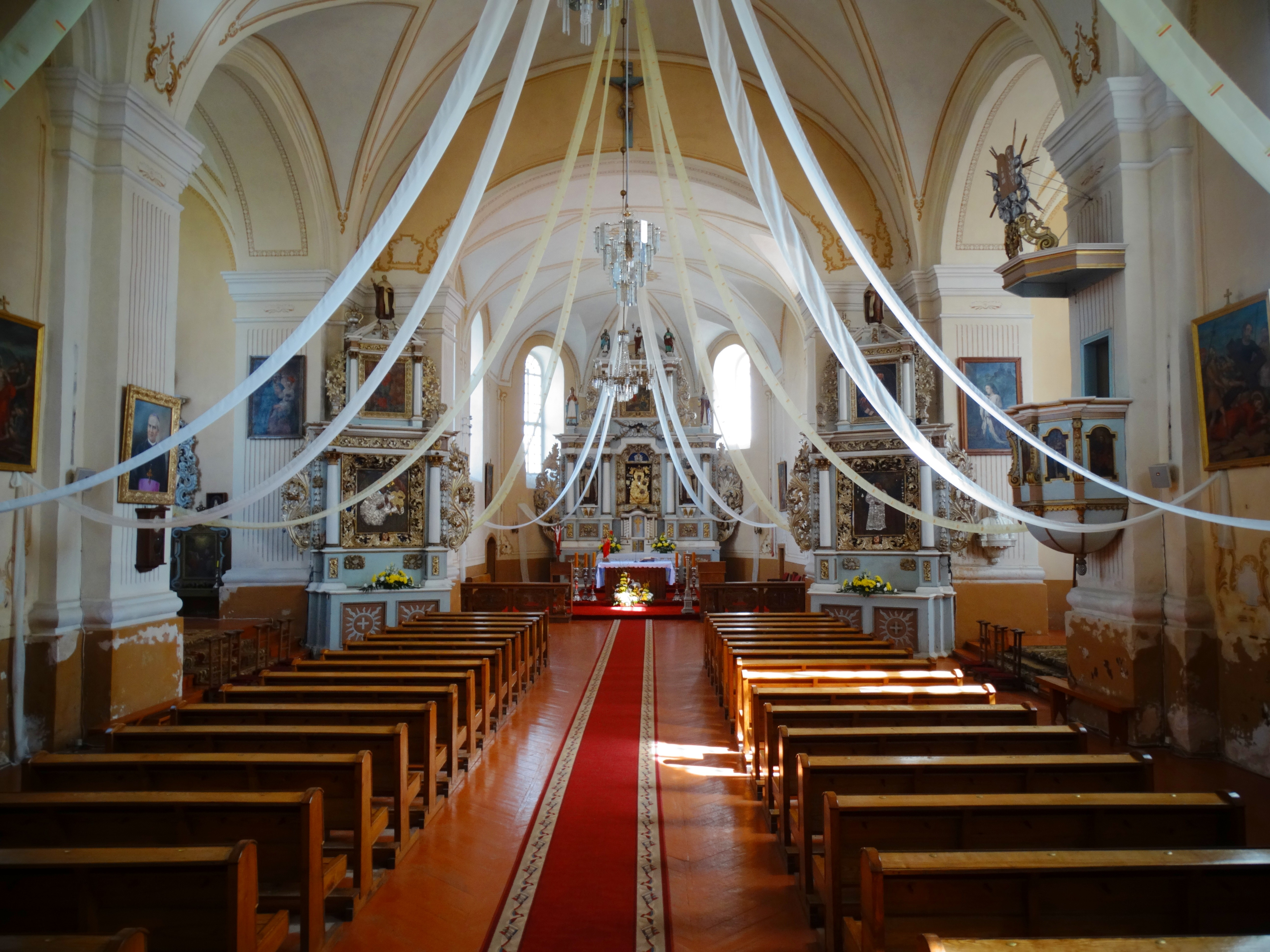 Linkuva, Saint Mary Church, Pakruojis District, Lithuania